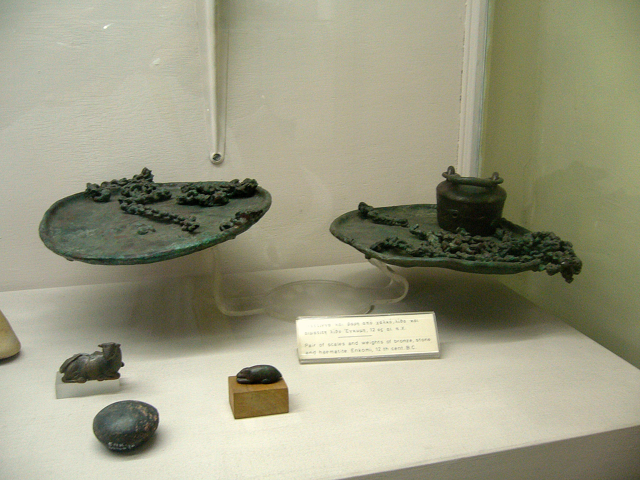 Pair of scales and weights of bronze, stone and haematite, 12th c. B.C. Archaeological Museum in Nicosia, Cyprus